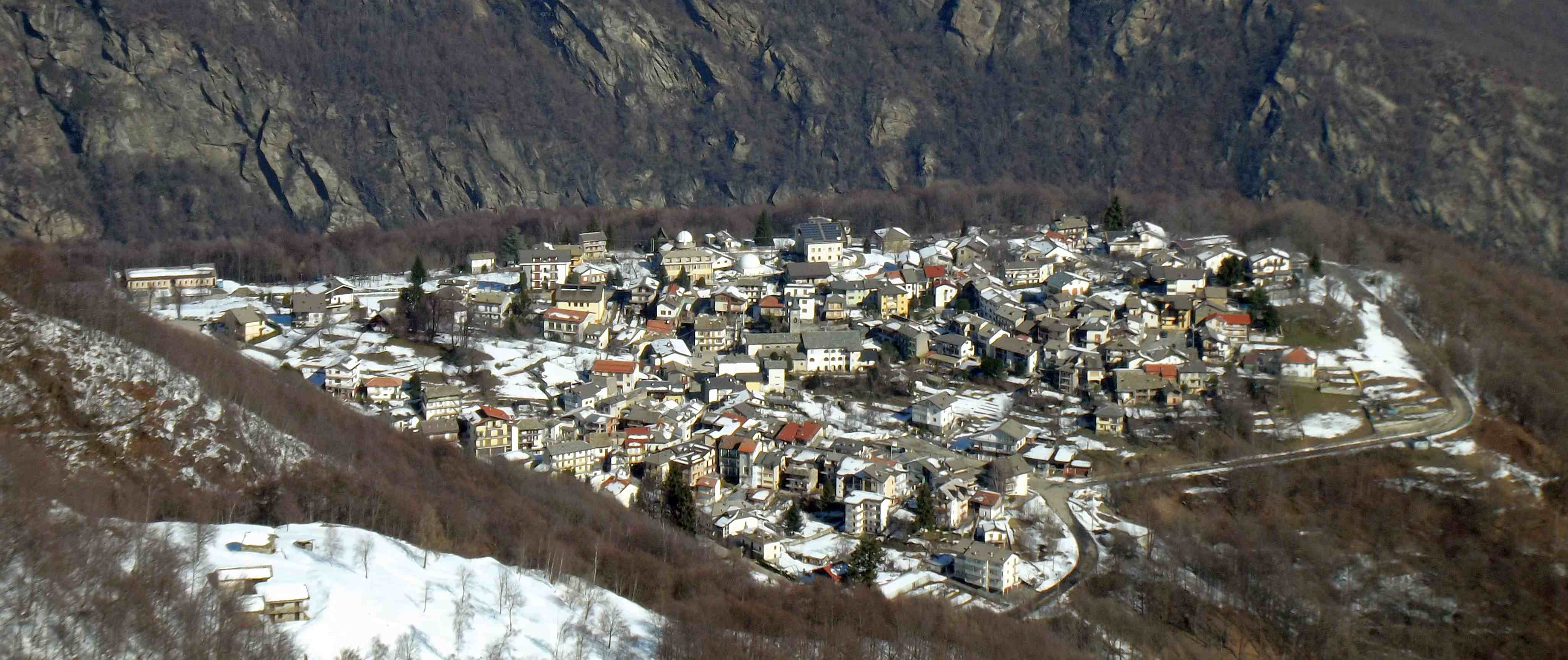 Alpette (TO): panorama from Cima Mares